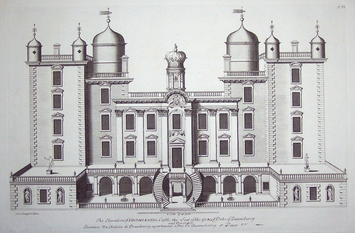 The entrance front of Drumlanrig Castle in Scotland from Vitruvius Britannicus (several volumes early to mid 18th century, specific volume not known).